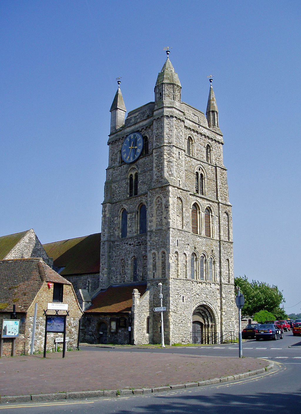 The church tower of the St Nicholas Church in New Romney, Kent, in June 2007